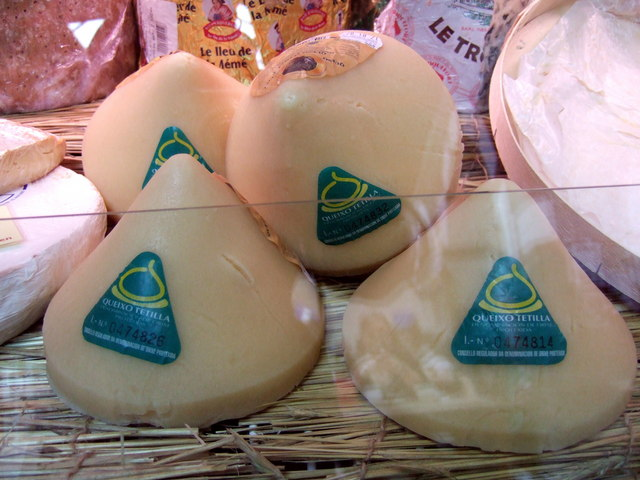 Spanish cheese in Cardigan market Queso tetilla on a delicatessen stall, so-called from their breast-like shape.